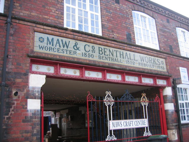 Maw & Co's Benthall Works The entrance to the former tile works near Jackfield. A portion of this once extensive and prestigious tile works have now been renovated and converted to provide units for a craft centre.